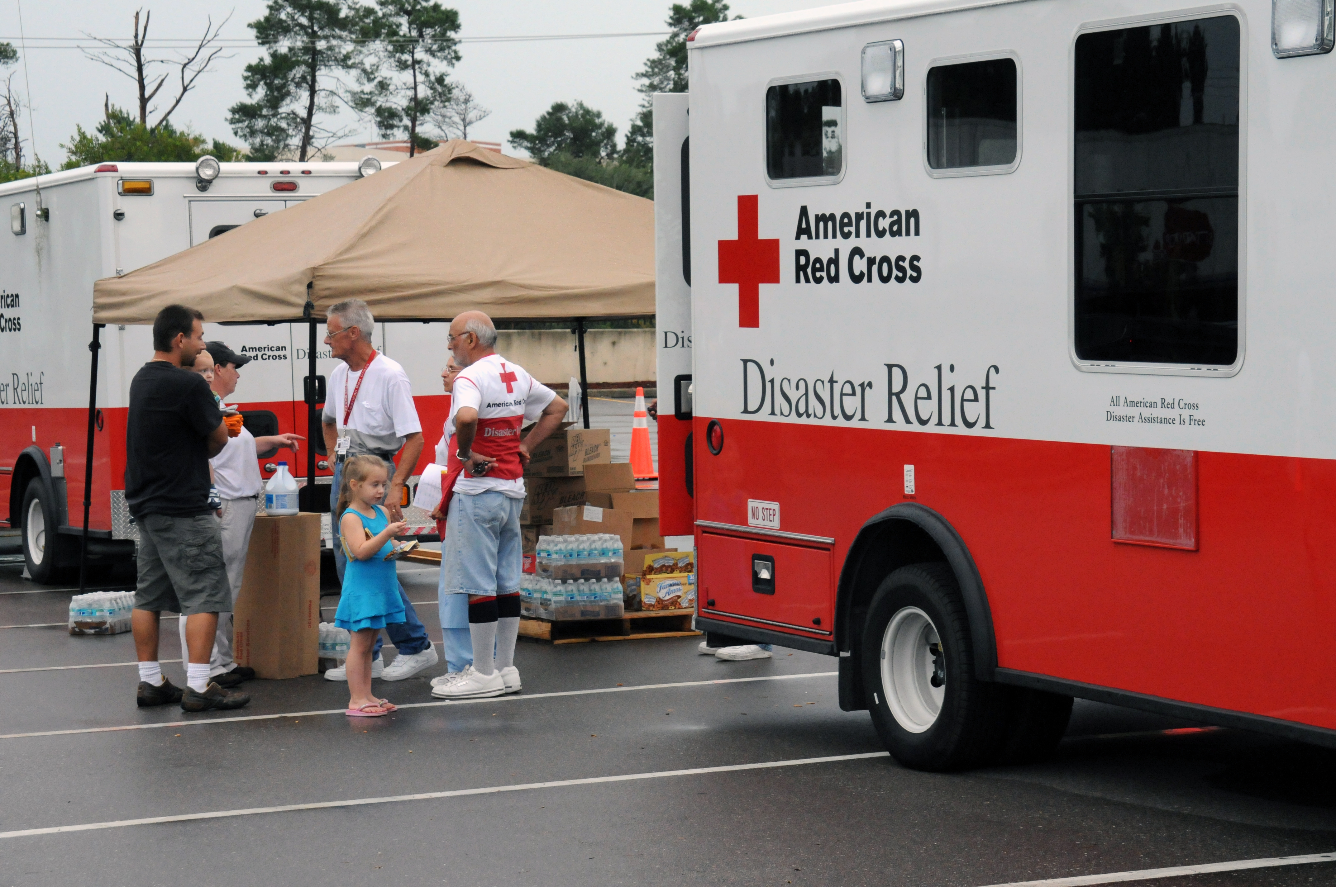 DeBary, FL, August 30, 2008 -- At the FEMA Disaster Recovery Center(DRC), Red Cross is providing services to residents affected by Tropical Storm Fay. George Armstrong/FEMA